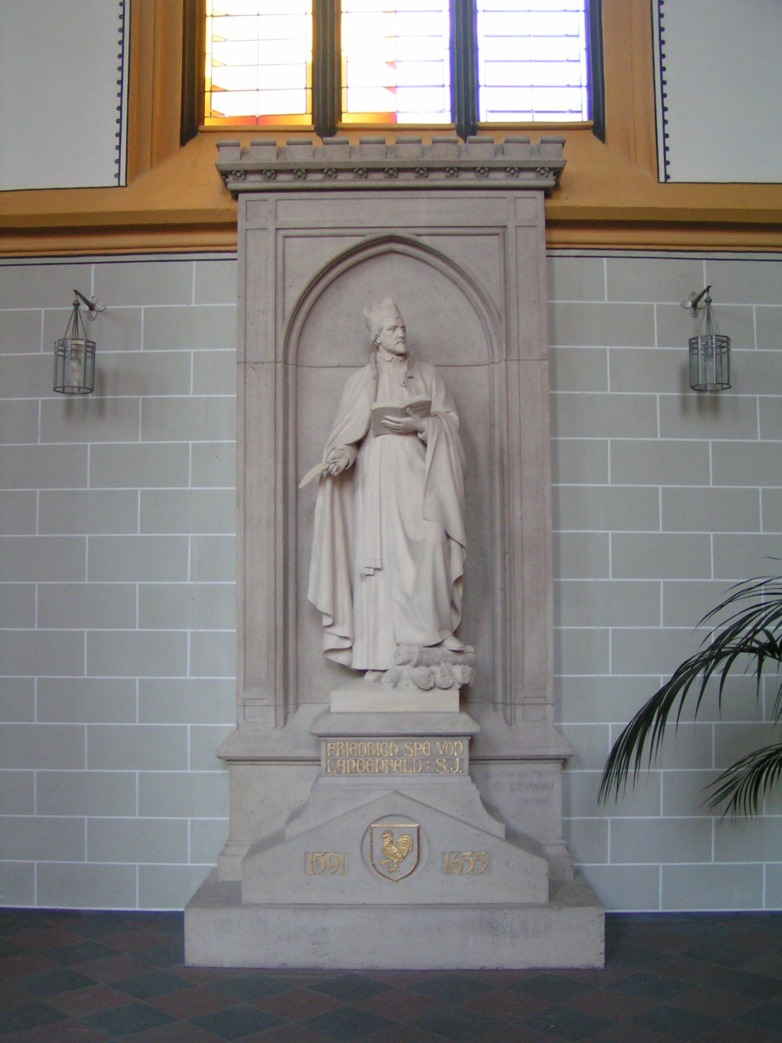 Jesuitenkirche, Trier, Germany